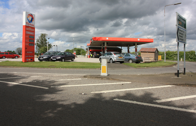 Caenby Corner Petrol Station The roof seems to have had an argument with a high vehicle. The filling station stands on the north side of the roundabout.